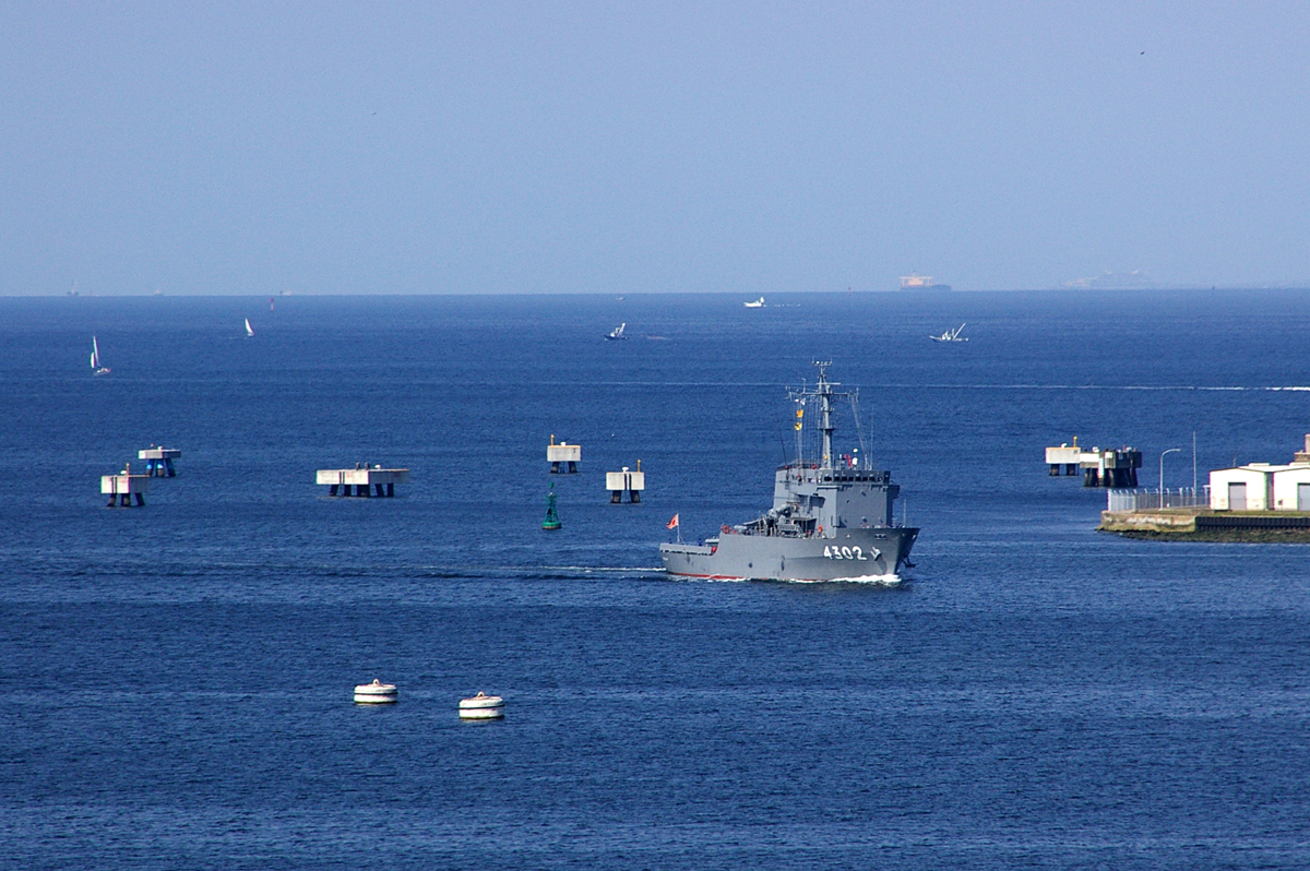 JS Suō (AMS-4302) passes by the Yokosuka Degaussing Range.